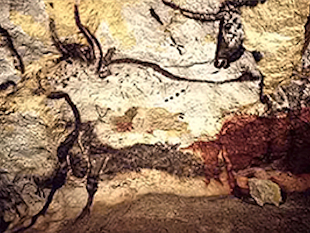 Lascaux Caves - Prehistoric Paintings.